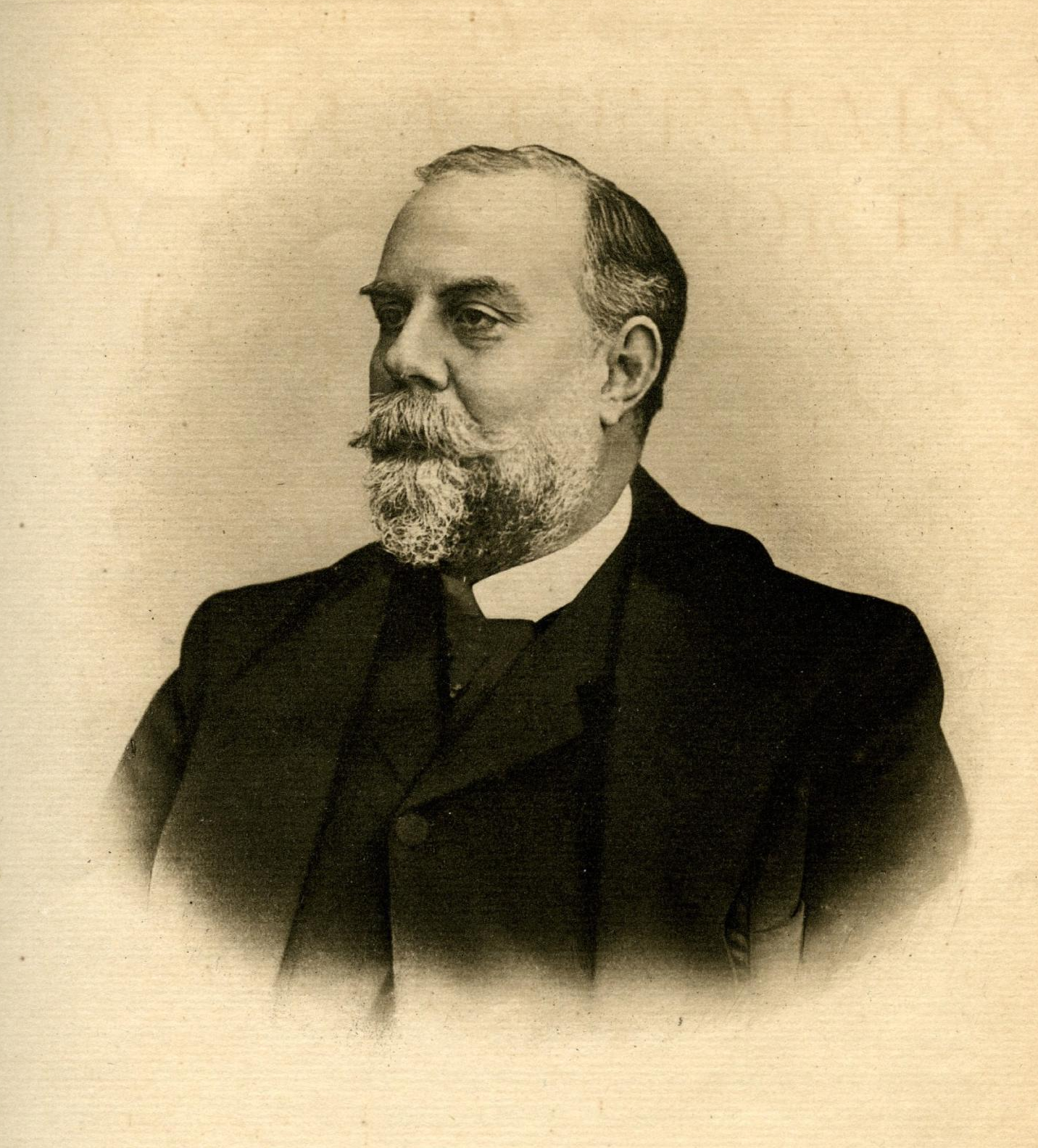 Tristão Guedes Correia de Queirós, 1st Marquis of Foz (1849-1917)